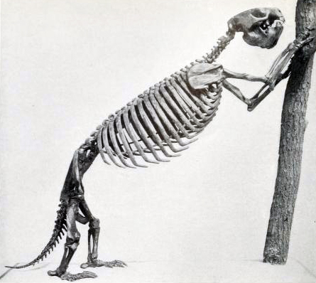 Megalocnus specimen at Havana Academy of Sciences